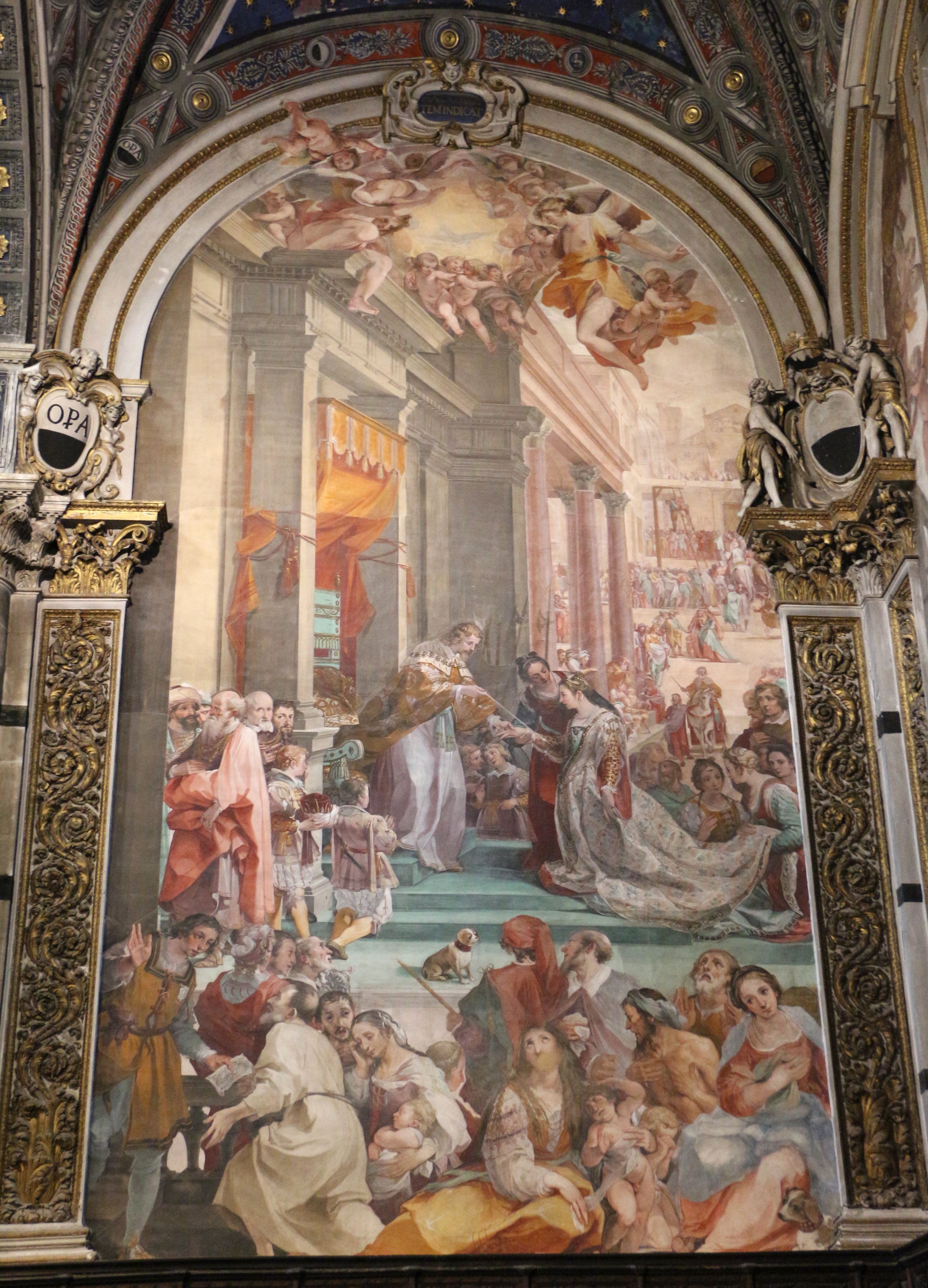 Cathedral (Siena) - Choir